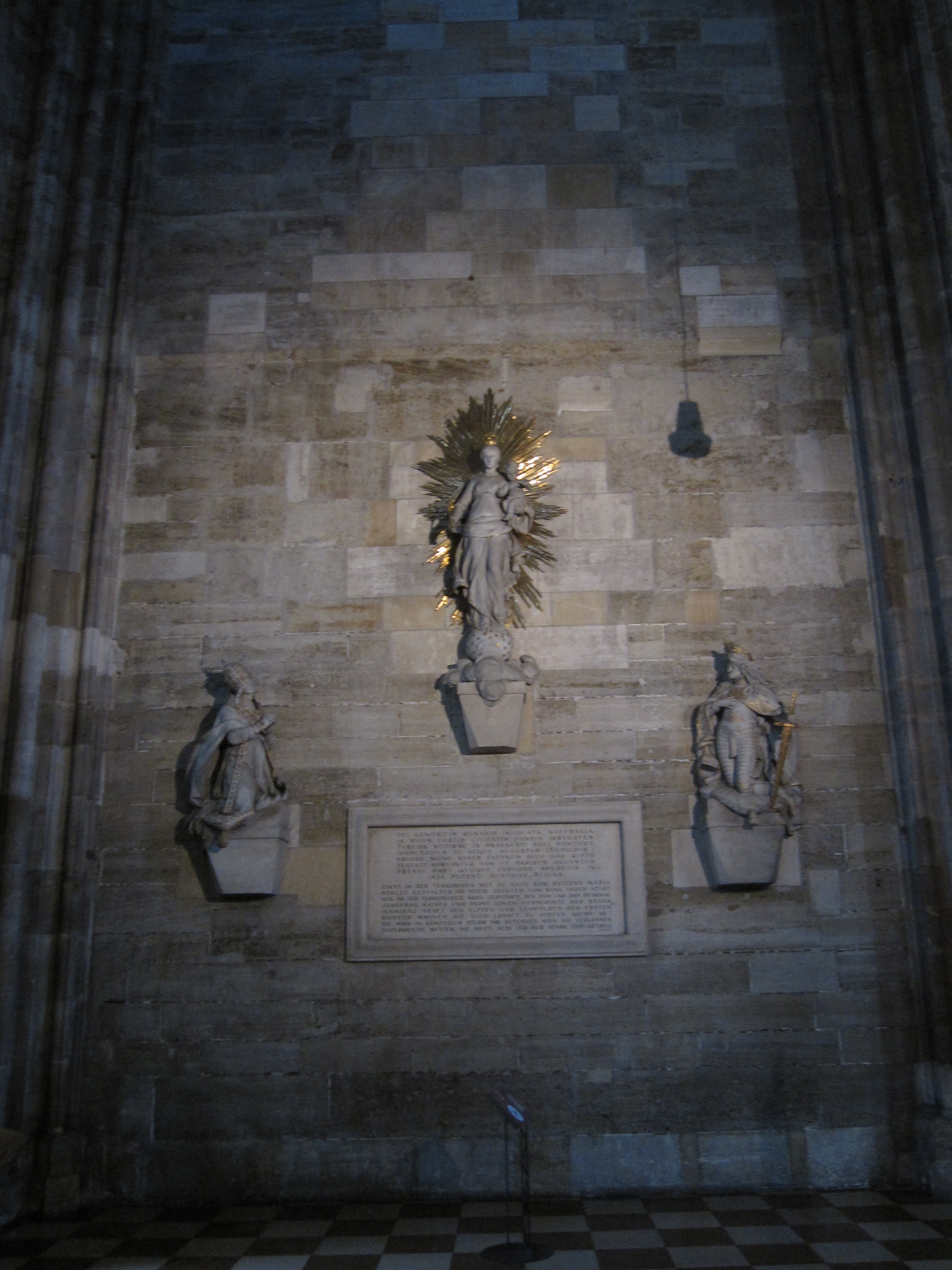 St. Stephen's Cathedral, Vienna